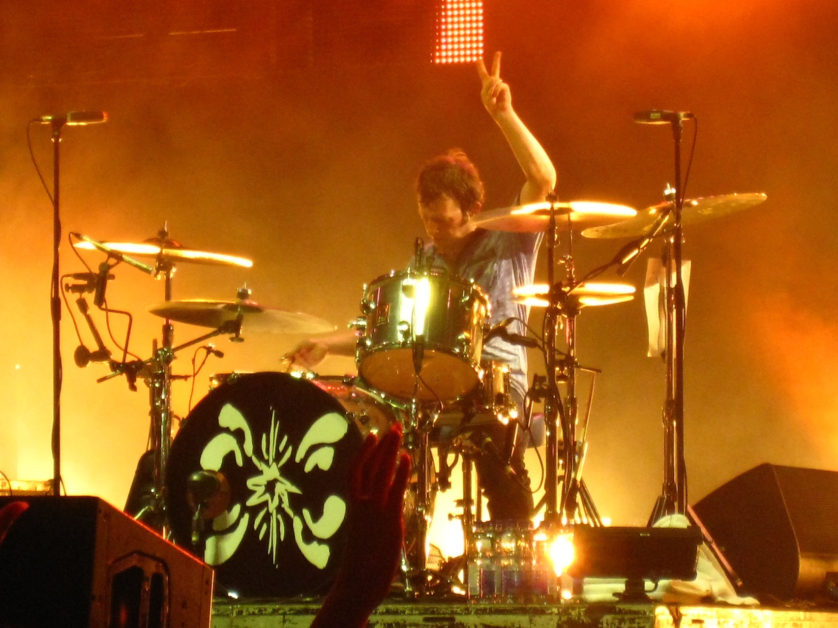 Taken at the Oasis Concert @ Bell Centre, Montreal, Canada on 5th September, 2008. Oasis is an mutli award winning rock band hailing from Manchester, England. Composed of Liam Gallagher (Vocals), Noel Gallagher (Vocals & Guitar), Gem Archer (Guitar), Andy Bell (Guitar) & Chris Sharrock (Drums), they have sold over 50 million records.